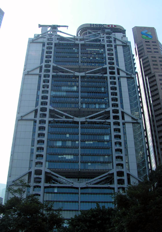 HSBC main building north side